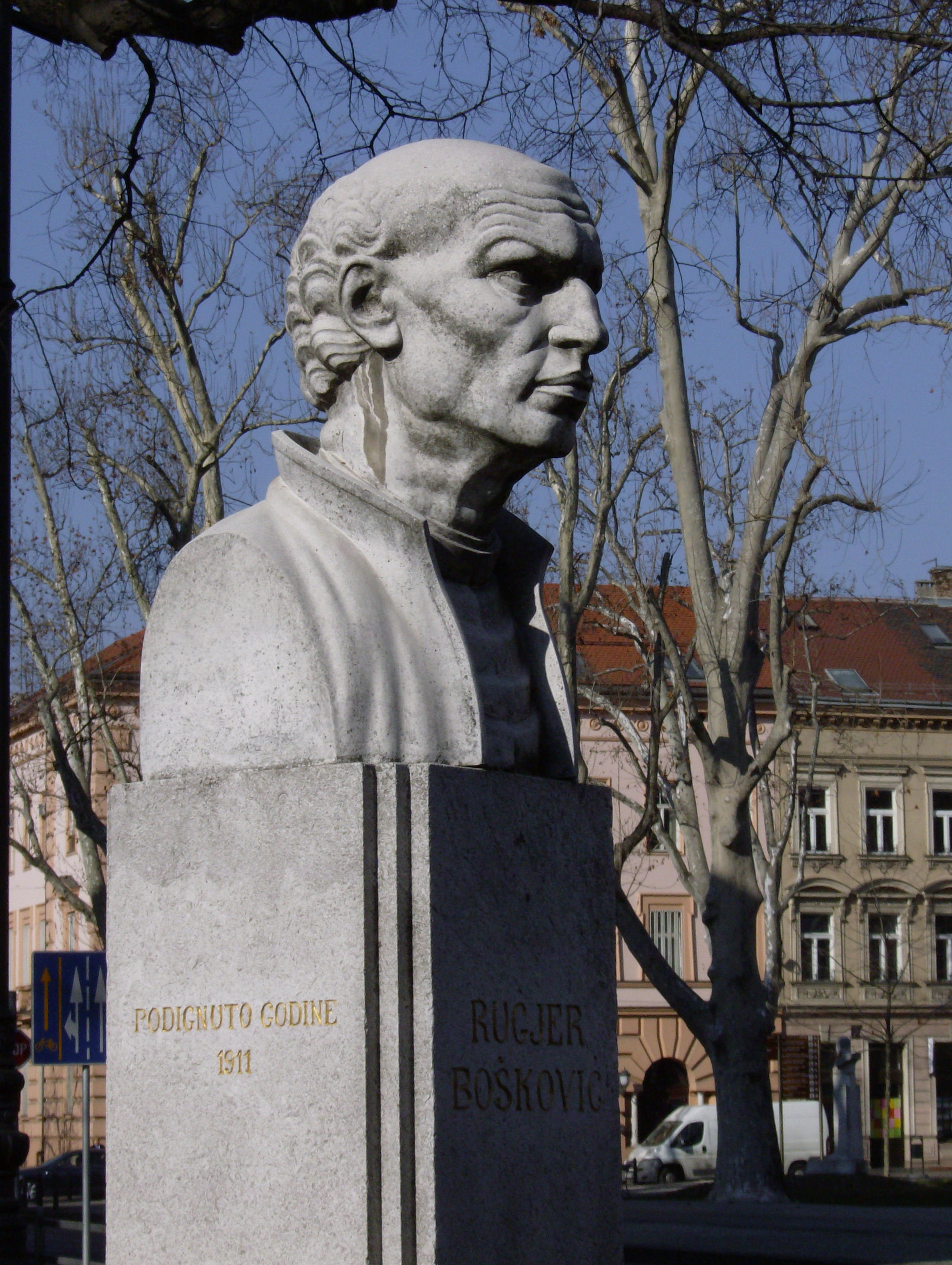 A bust of Ruđer Bošković (Roger Joseph Boscovich) in Zrinjevac Park, Zagreb, Croatia.